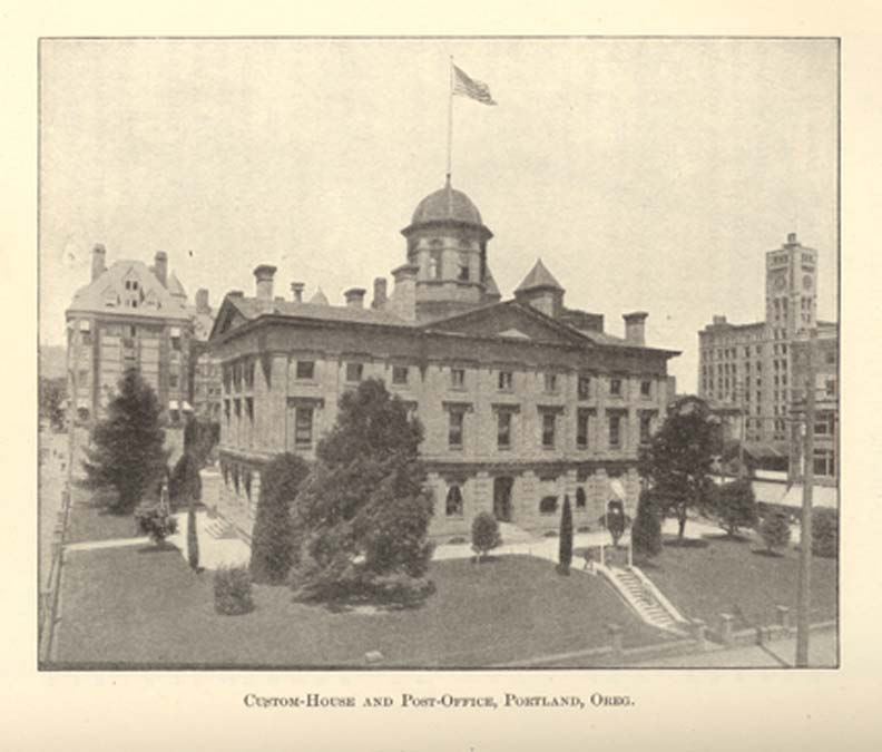 1901 picture of the U.S. Custom House and Post Office in Portland Oregon, former home of the United States District Court for the District of Oregon, and current local meeting place of the United States Court of Appeals for the Ninth Circuit